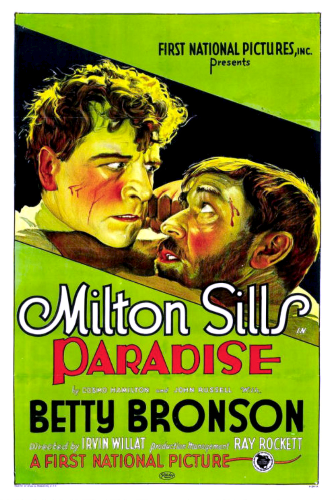 Poster for the American film Paradise (1926). The item has no copyright markings on it as can be seen in the links above. At bottom is Country of origin and production USA, the logo of Ritchey Litho-the company who printed the poster and some numbers which appear to be related to the printing of the poster.